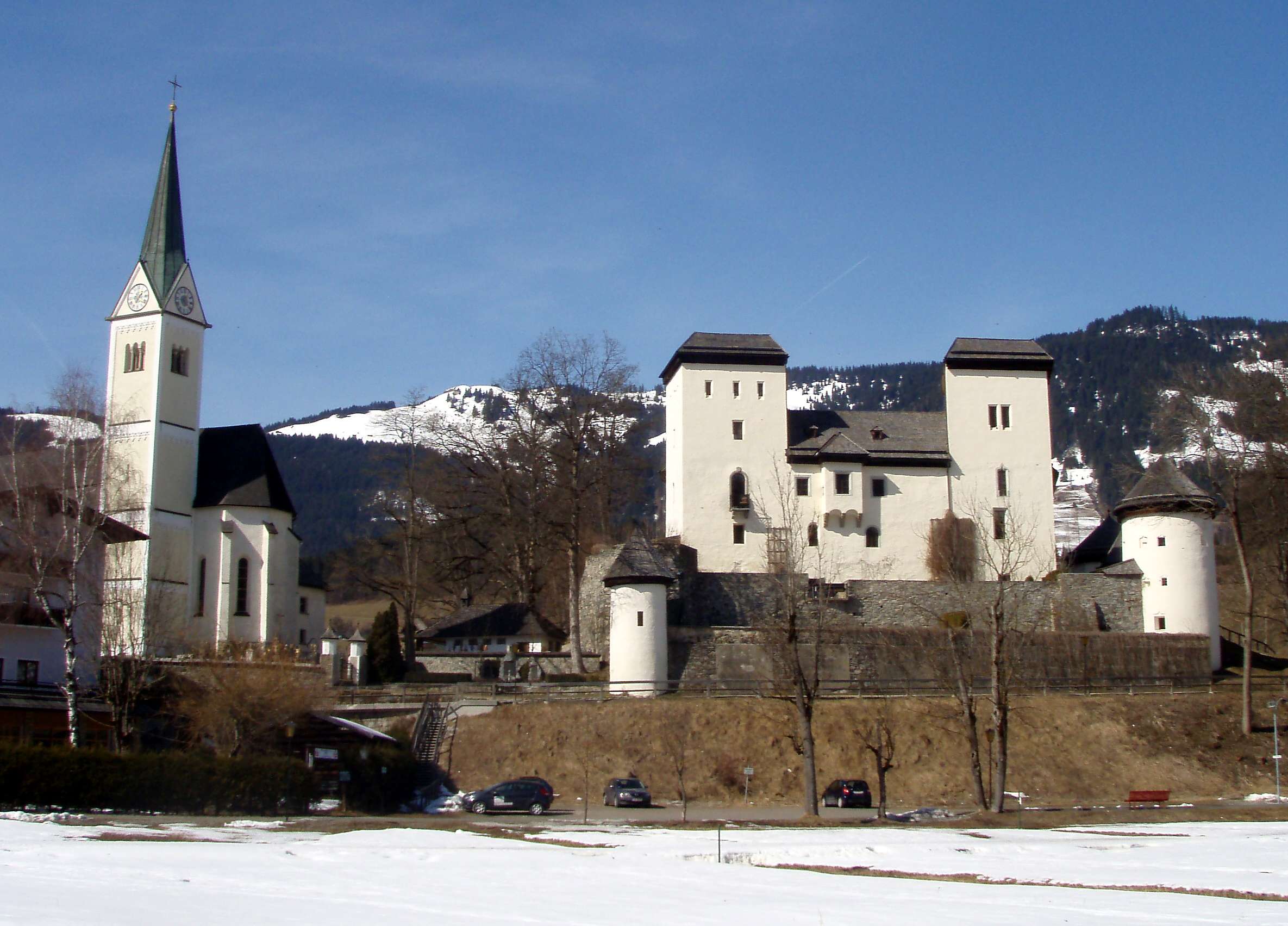 Goldegg Castle in Goldegg im Pongau, Salzburg (state), Austria. On the left side the Goldegg Parish Church. In between of the castle and the church is the wall and the entrance of the cementery. Dieses Bild wurde anlässlich des österreichischen Tags des Denkmals 2014 in Salzburg eingereicht.